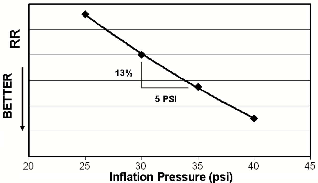 The force necessary to overcome hysteretic losses in a rolling tire is known as rolling resistance. This parameter became important to USA vehicle manufacturers with implementation of C.A.F.E. (Corporate Average Fuel Economy) standards for new cars. It is measured by placing load cells in the wheel spindle and measuring the rolling resistance force in the horizontal (longitudinal) direction. It requires precise instrumentation, calibration, speed control and equipment alignment for repeatable results. Rolling resistance is usually expressed as a coefficient: resistance force per 1000 units of load. OE passenger car tires designed for fuel efficiency may have coefficients in the range 0.007 to 0.010 when fully inflated and evaluates at thermal equilibrium. The test load, speed and inflation pressure vary according to the vehicle manufacturers’ requirements. Rolling resistance is significantly influenced by inflation pressure, as illustrated in the figure. Since tire rolling resistance can consume up to 25% of the energy required to drive at highway speeds, it is economically wise to keep tires inflated properly.